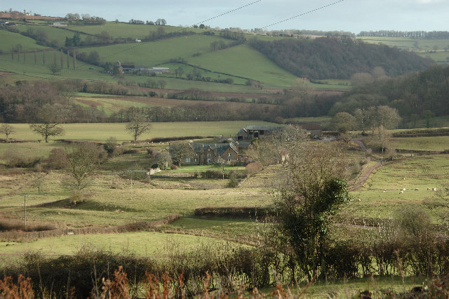 Lower Dyffryn Farm. Typical of the farms to be found in the mid Monnow Valley